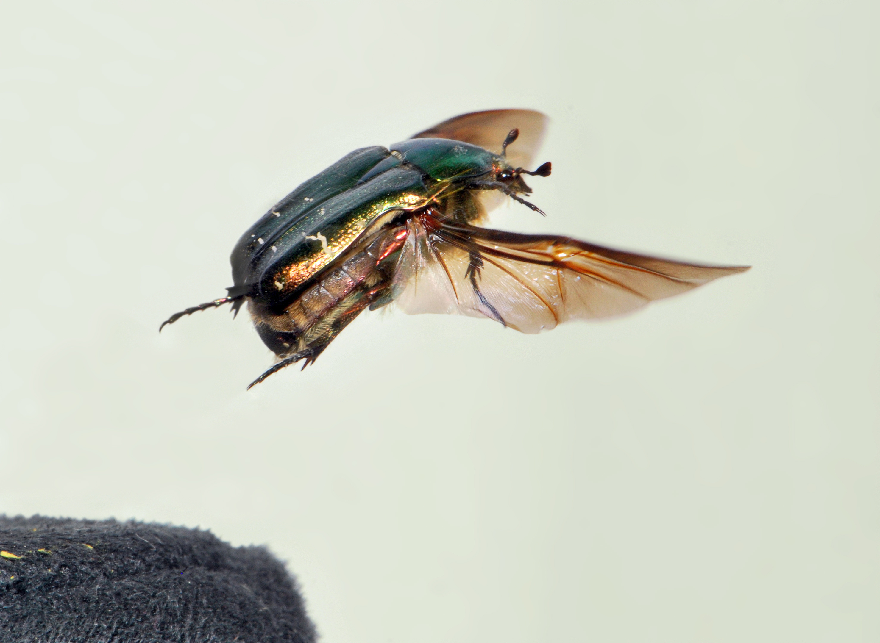 Cetonia aurata, known as the rose chafer, or more rarely as the green rose chafer, is a beetle, 20 mm (¾ in) long, that has metallic green coloration (but can be bronze, copper, violet, blue/black or grey) with a distinct V shaped scutellum, the small triangular area between the wing cases just below the thorax, and having several other irregular small white lines and marks. The underside is a coppery colour. This image is part of a nine image take-off series.